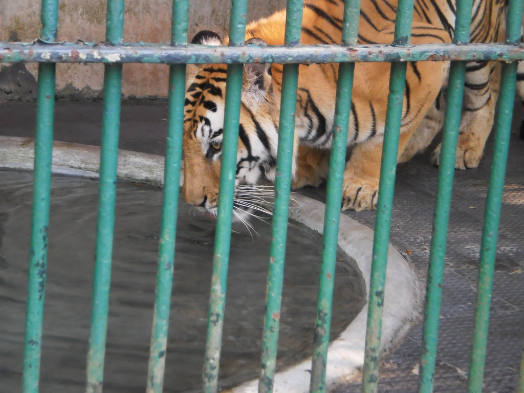 Tiger from the Thiruvanathapuram Zoo